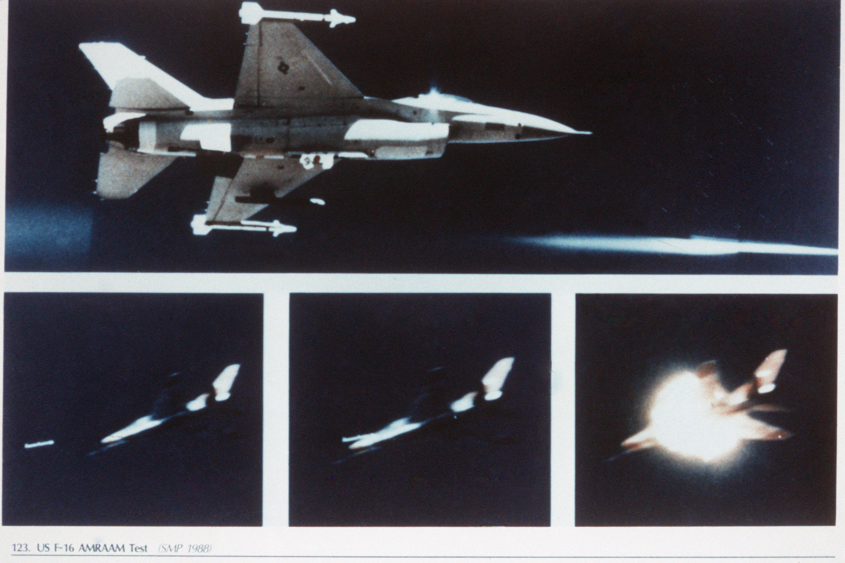 A composite view of an U.S. Air Force General Dynamics F-16A Fighting Falcon aircraft launching an AIM-120 AMRAAM missile and the missile striking the QF-100 Super Sabre target aircraft.